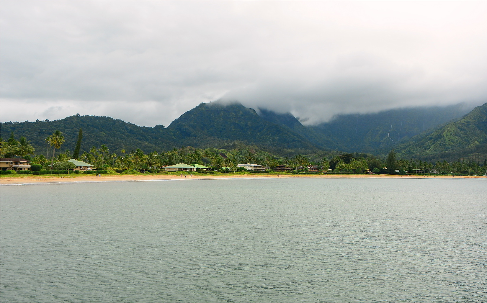 One of the green houses in the middle is the one in the movie.